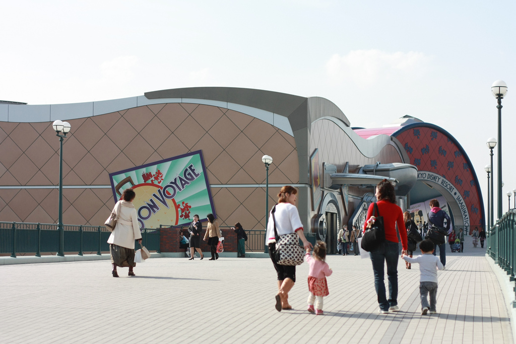 Bon Voyage at Tokyo Disney Resort